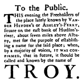 Advertisement declaring the choice of "Troy" for the city of Troy, New York, United StatesFull text: To the Public. This evening the freeholders of the place lately known by Vander Heyden's or Ashley's Ferry, situate on the east bank of Hudson's river, about seven miles above Albany, met for the purpose of establishing a name for the said place; when, by a majority of voices, it was confirmed, that in future, it should be called and known by the name of Troy.